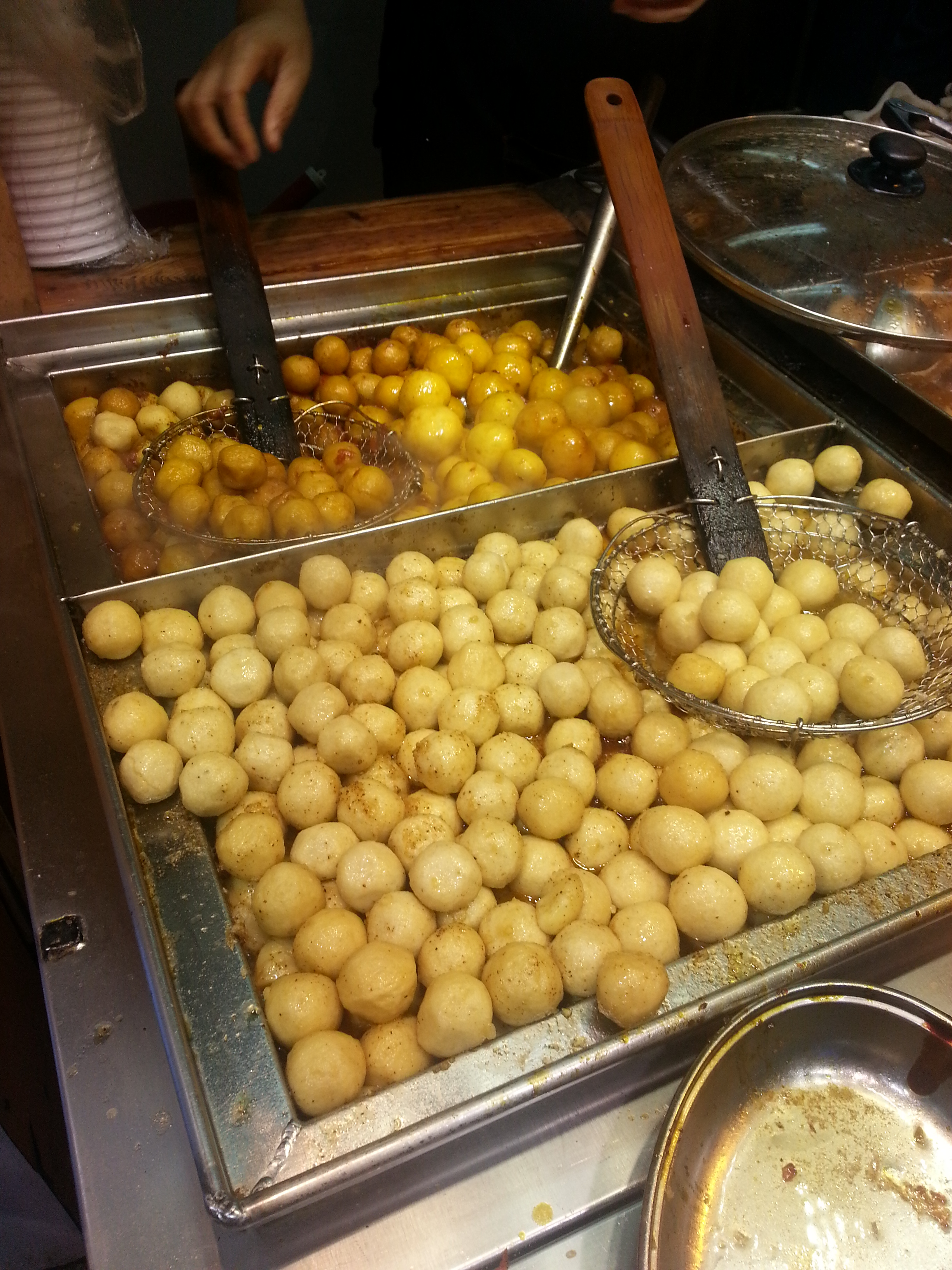 Fishballs